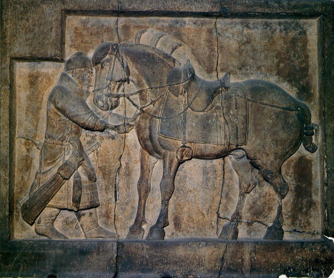 Bas Relief of “Saluzi” One of the Tang Horses Bas Relief of “Saluzi”, China, Zhaoling, Shaanxi province, Tang Period (circa 636-649 AD), Stone, H. 169, Penn Museum Object C395. This horse, named “Saluzi” or Autumn Dew, is one of six chargers commissioned by the Emperor Taizong for his mausoleum, Zhaoling. Historical records say he was ridden in battle by the Emperor during a great siege, when, after being stuck with an arrow, the Emperor was forced to dismount and switch horses with one of his favorite Generals. The General is shown here pulling the arrow out of Autumn Dew’s chest while the horse stoically bears the pain. The University of Pennsylvania Museum of Archaeology and Anthropology.